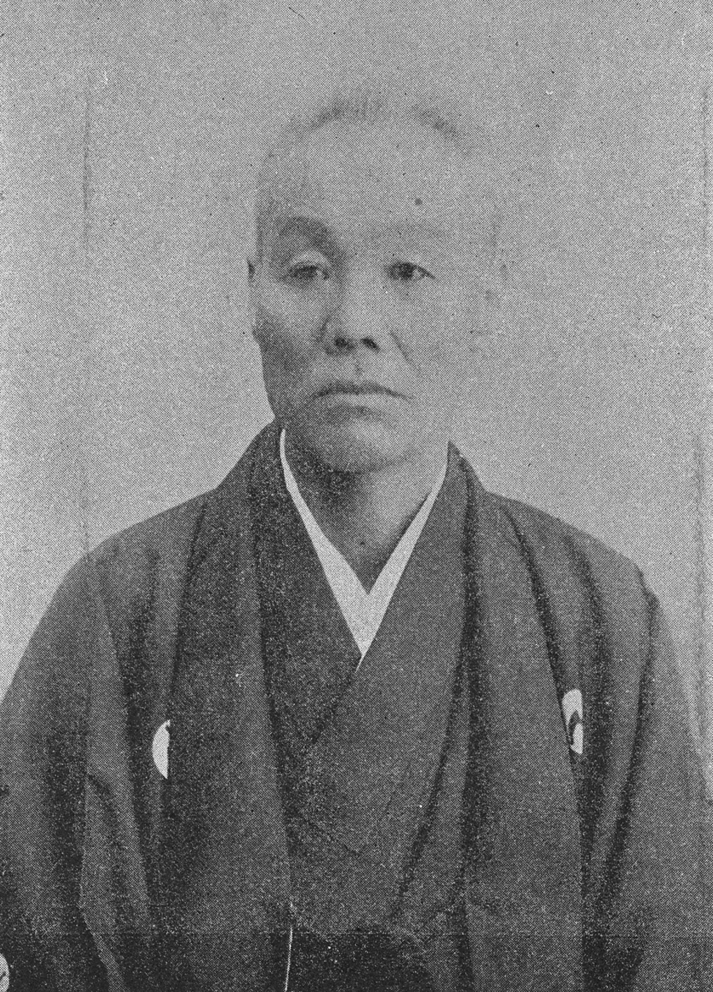 Portrait of Iomi Chuichi (伊臣忠一, 1838 – 1907)